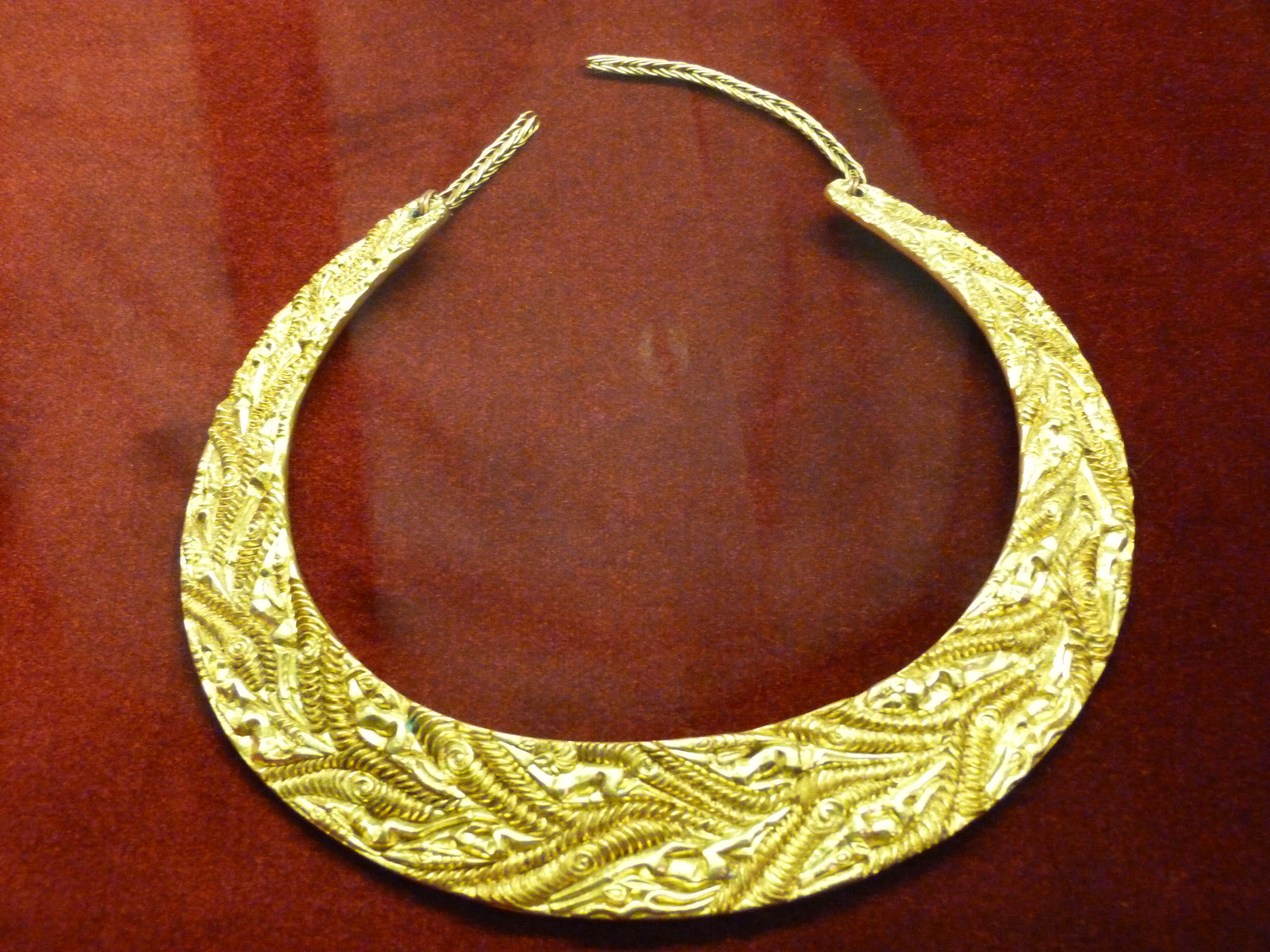 Empire of the Sun. Scytians ! Great, honorable men ! Remember the beginning of your way ! Live on the 13th of November, 2012, Budapest, VAM Design Center. Published under Creative Commons in the Metapolisz DVD line. All of the photos and vids in the Metapolisz DVD line are under Creative Commons and can be used even for commercial - for profit - purposes. Recommended citation: Derzsi Elekes Andor: Metapolisz DVD line Sources: Сенсационной называют свою находку археологи, обнаружившие в Карагандинской области «золотого человека» Sun emperor File:Sun_emperor.JPG Még mindig tagadnunk kell? Szkíta „aranyembert” találtak a kazah régészek A szkíta Napherceg Szkíta kincsekből nyílik egyedülálló kiállítás Budapesten: Badinyi-Jós Ferenc :a tatárlakai korong szövegének megfejtése: „Oltalmazónk! Minden titok dicső Nagyasszonya! Vigyázó két szemed óvjon, Napatyánk fényében!” Szathmáry megfejtése: „Egyetlen, magasztos Teljességünk leáldozóban, de Fény atyánk arca felemelkedik, ismét felragyog, s betölti dicsőségét!”